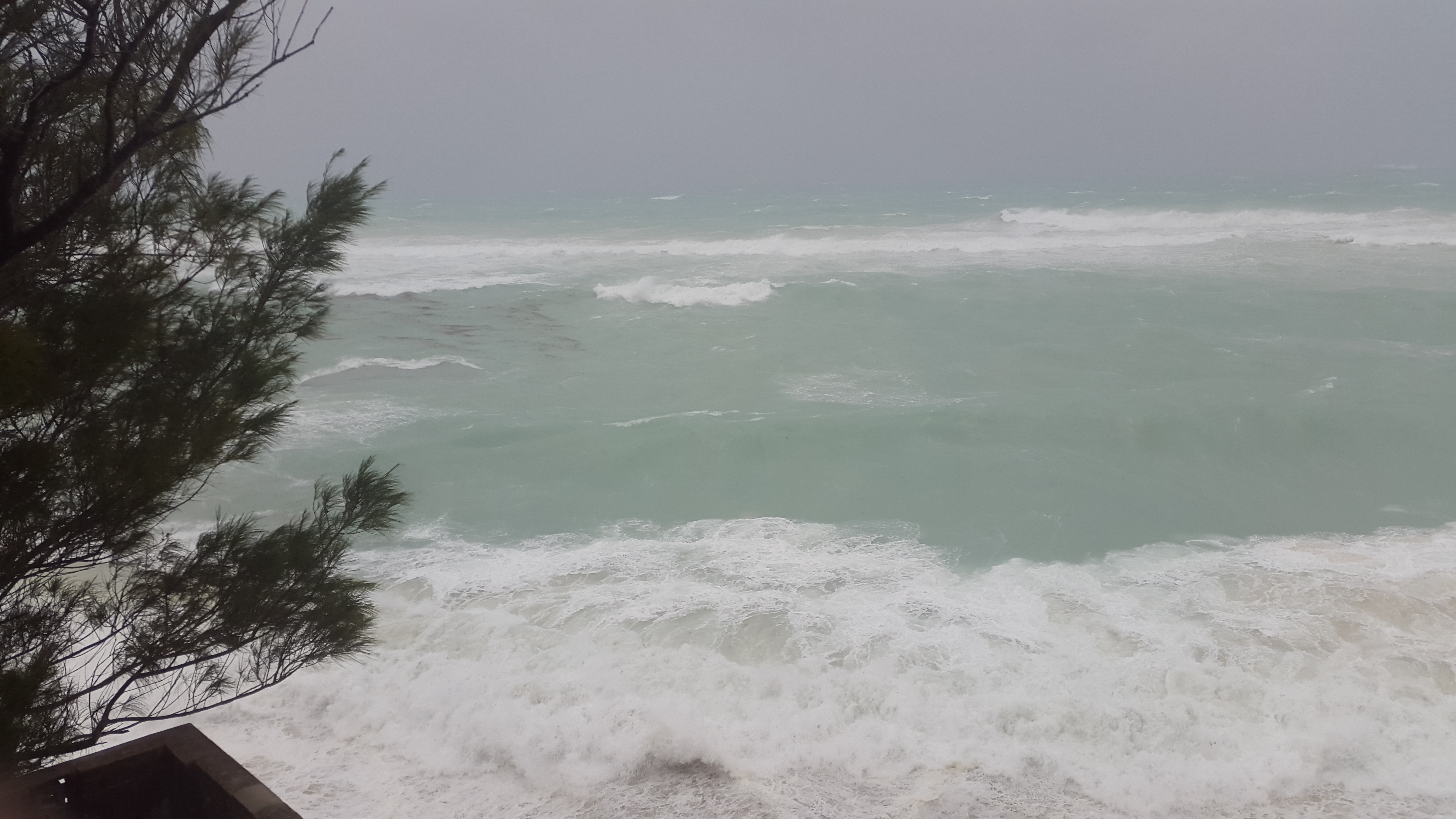 This photo was taken before Hurricane Gonzalo's tropical storm winds reached Bermuda. This is a photo of a beach on the south shore of Warwick, Bermuda, taken during the early afternoon (local time) on Oct. 17, 2014, about two hours before the storm moved in. At that time it was windy with light rain. Credit: Camille Haley NASA image use policy. NASA Goddard Space Flight Center enables NASA’s mission through four scientific endeavors: Earth Science, Heliophysics, Solar System Exploration, and Astrophysics. Goddard plays a leading role in NASA’s accomplishments by contributing compelling scientific knowledge to advance the Agency’s mission. Follow us on Twitter Like us on Facebook Find us on Instagram